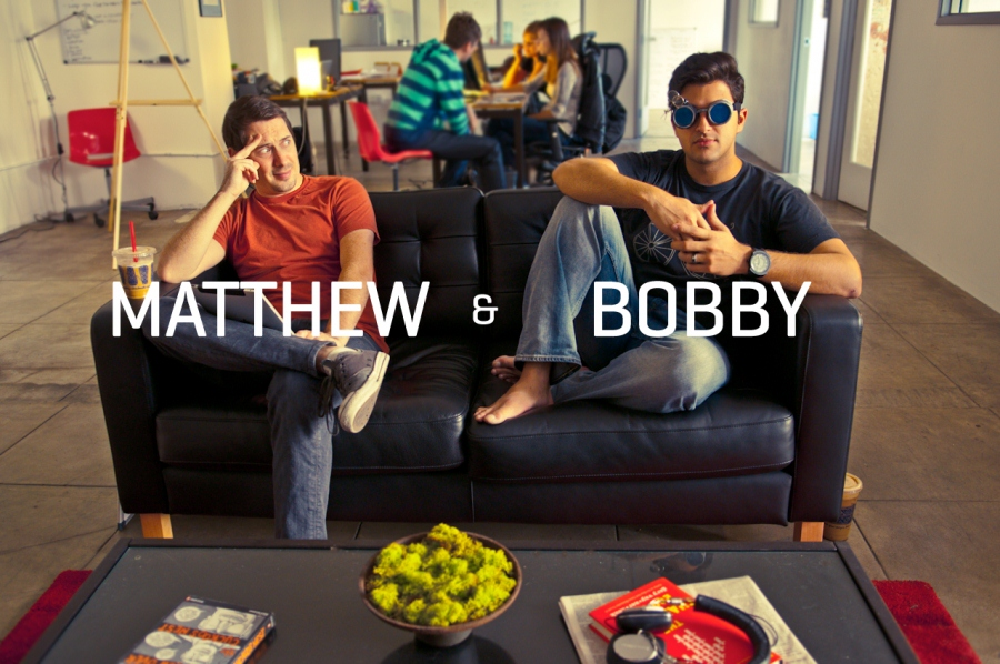 Matthew & Bobby, cofounders of Flud